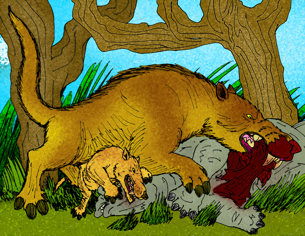 A reconstruction of the Eocene Cetancodontamorph Andrewsarchus mongoliensis. A female Andrewsarchus leads her calf to a freshly deceased Megacerops carcass. (C) Stanton F. Fink